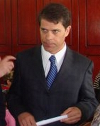 Photograph of the Chilean politician Patricio Rosende, I took at a press conference in 2008 with my mobile phone.